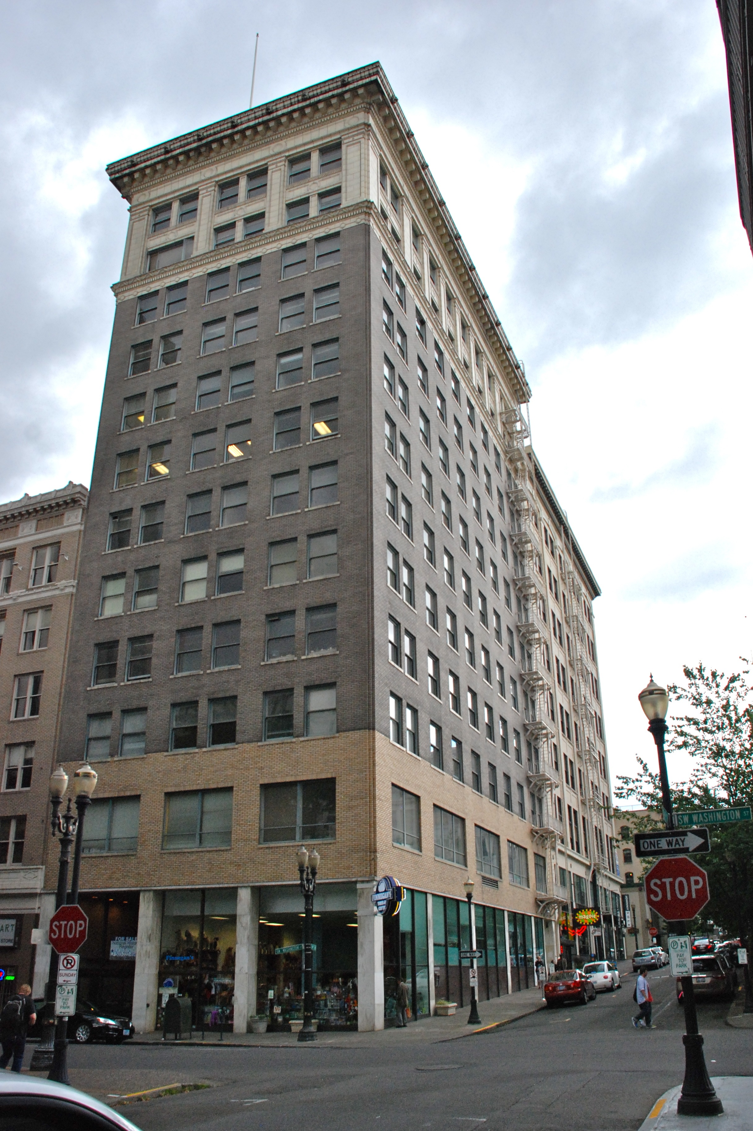 The Stevens Building (built in 1913–14), at 812 S.W. Washington Street in downtown Portland, Oregon, is listed on the U.S. National Register of Historic Places. It is located at the southeast corner of the intersection of 9th Avenue and Washington Street. This view is from across the intersection, looking south. The almost-as-tall building in the background is the Woodlark Building.